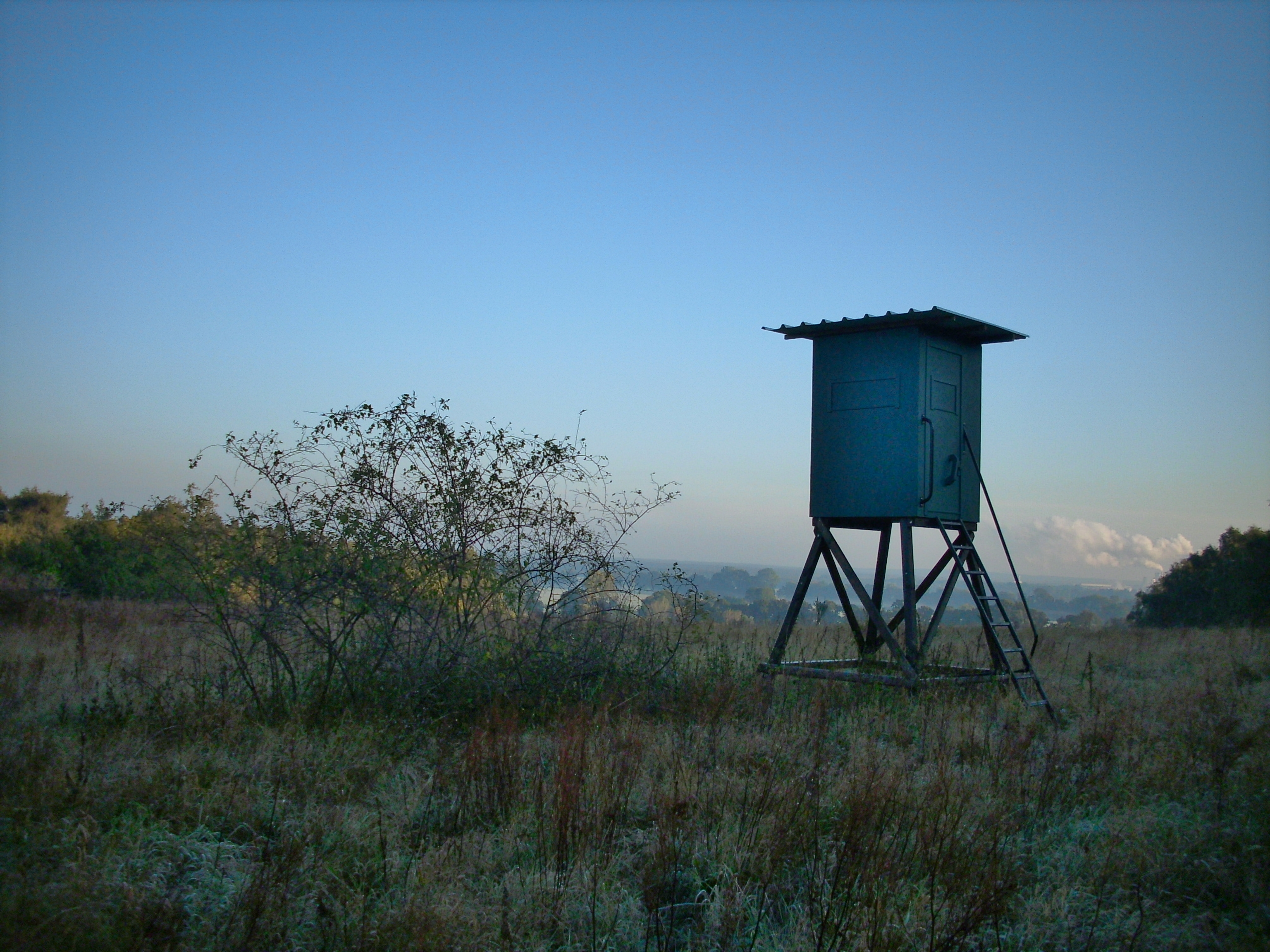 Baruth/Mark, Brandenburg, Germany; partial view over Baruth Glacial Valley from Frauenberg ("Hill of Women") in the morning